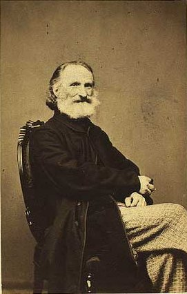 Moritz Unna (1811-1871), Danish painter and photographer